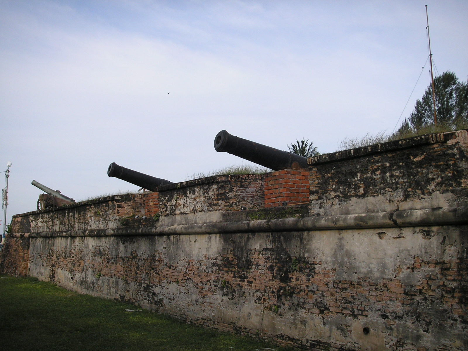 Image of the Fort Cornwallis in George Town, Penang.